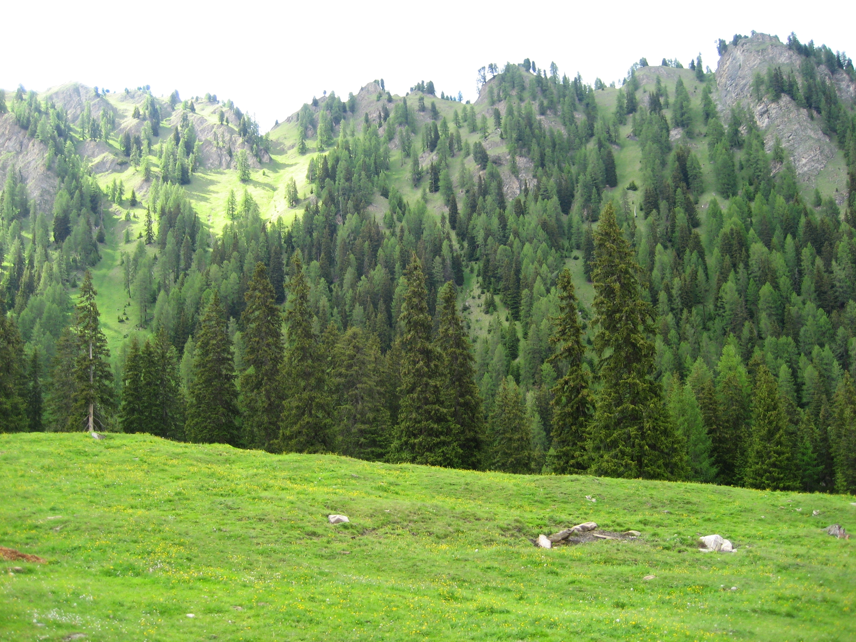 Plan God Nair in Val Sampuoir, Tschlin GR, Switzerland. Direction Fuorcal Curschiglias.